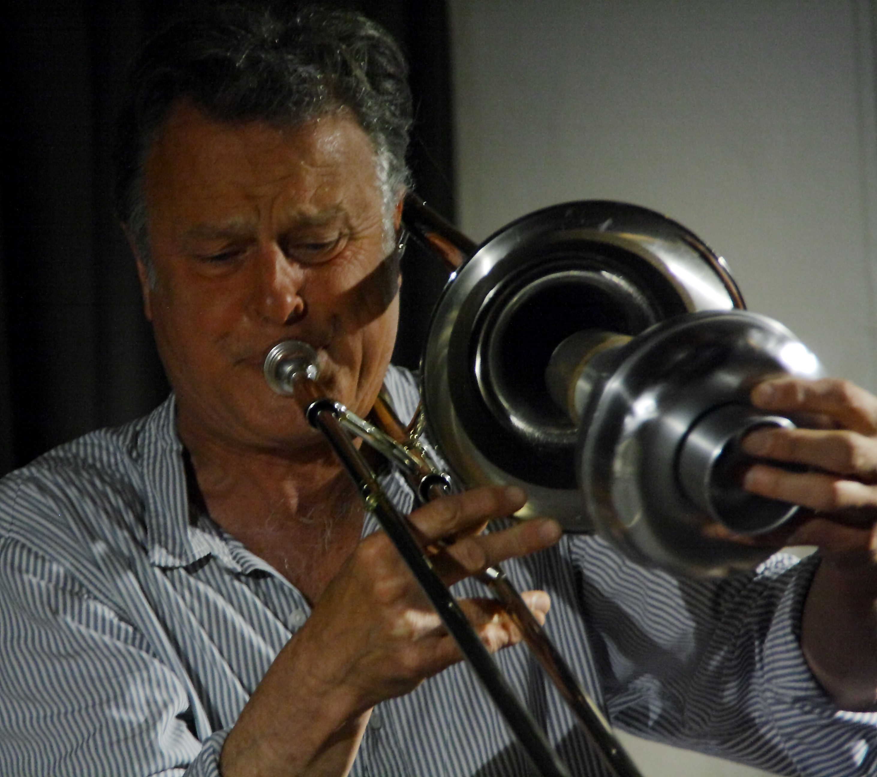 Trombonist Paul Hubweber with PaPaJo at Club W71, Weikersheim